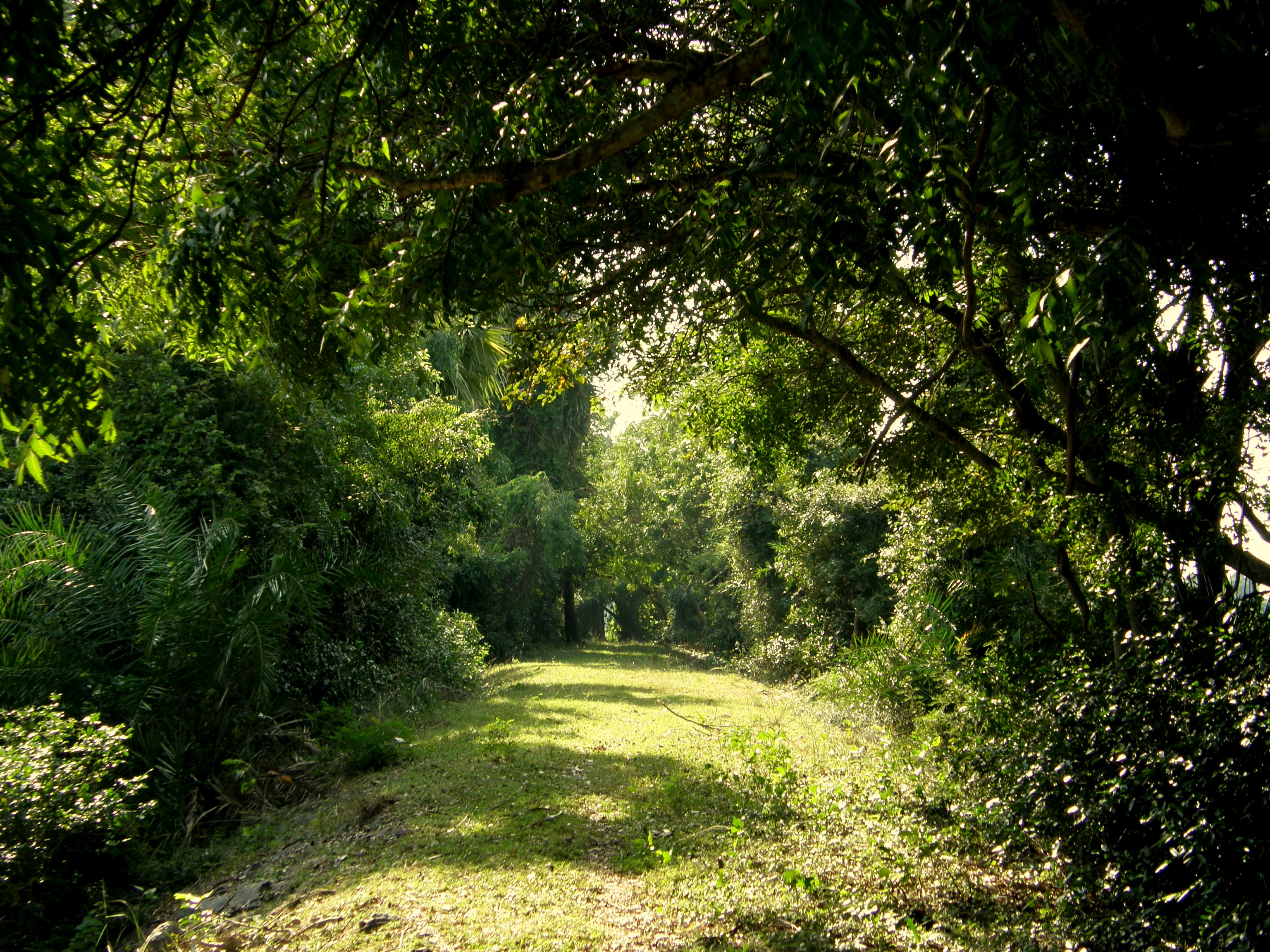 A picture taken at vedanthangal Bird Santary